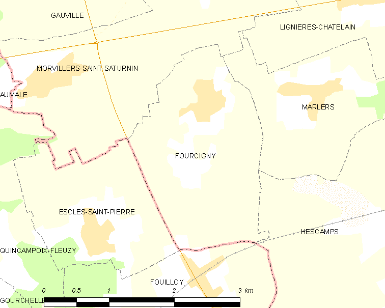 Map of French municipality Fourcigny